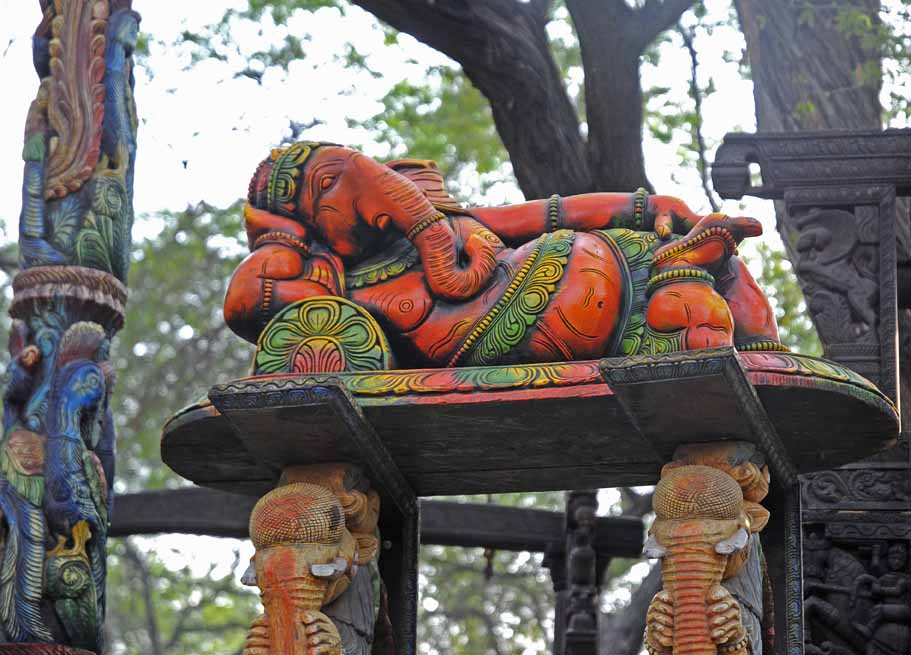 Thank you my dear Flickr friends for your patronage. My photos were visited 250,000 times in three years! It is appropriate to upload on this occasion an image of Ganesh, the elephant-headed Hindu God, known variously as Ganapati, Ganesh, Ganesha, Vinayak, Mangalmurti, Vighneshwara, etc. He is the son of Lord Shiva and Goddess Parvati and on his own right is worshiped as the God of Auspicious Beginning, Remover of Obstacles, Master of Astrology, Patron of Art and Science and the deity of Intelligence and Wisdom. This image was taken at the Annual Surajkund Crafts Meala, 2009.